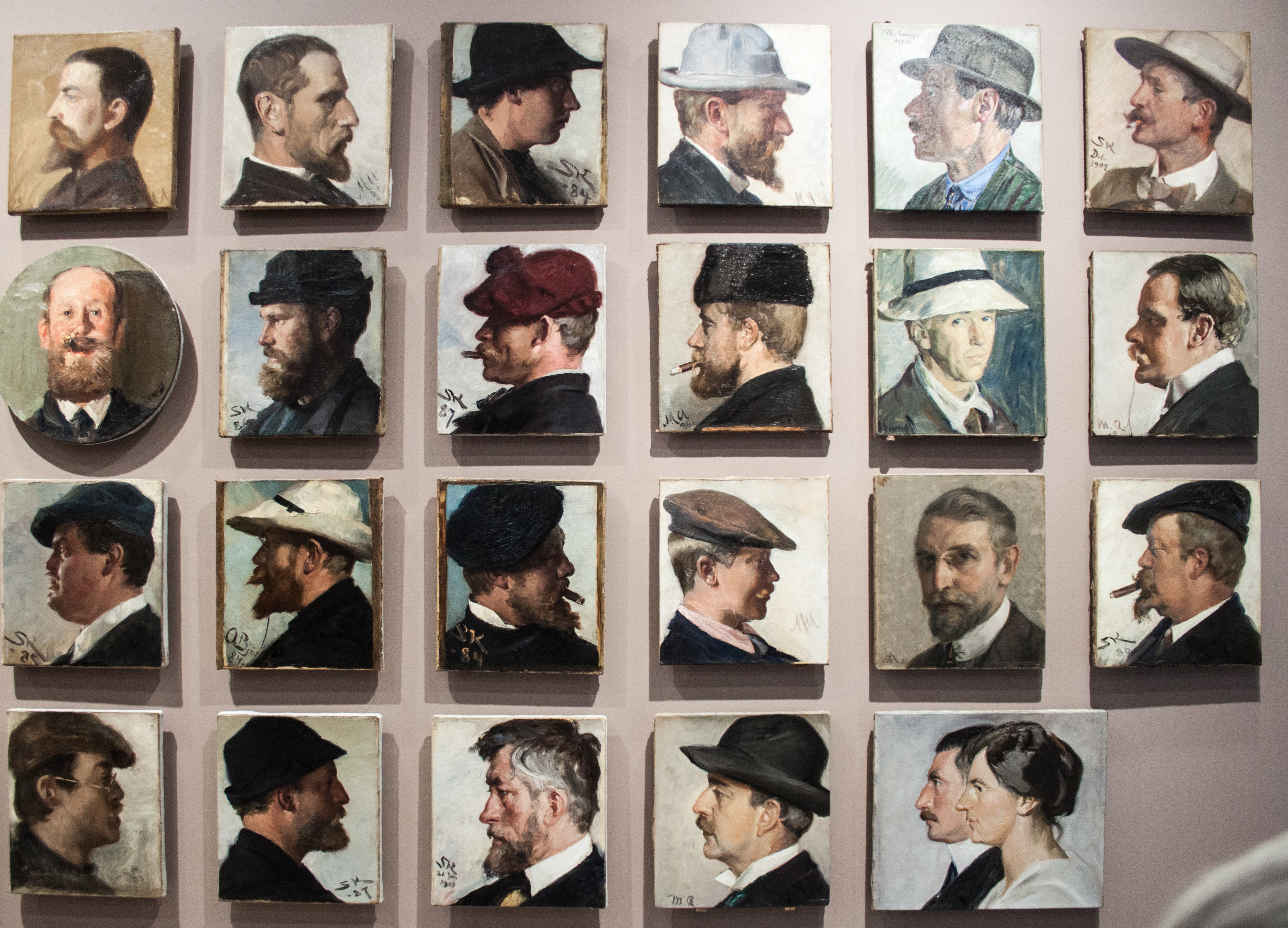 Portrait gallery by Skagen painters in Skagens Museum, second partlabel QS:Len,"Portrait gallery by Skagen painters in Skagens Museum, second part" label QS:Lhu,"A skageni festők portré-galéirája a Skageni Múzeumban, második rész"